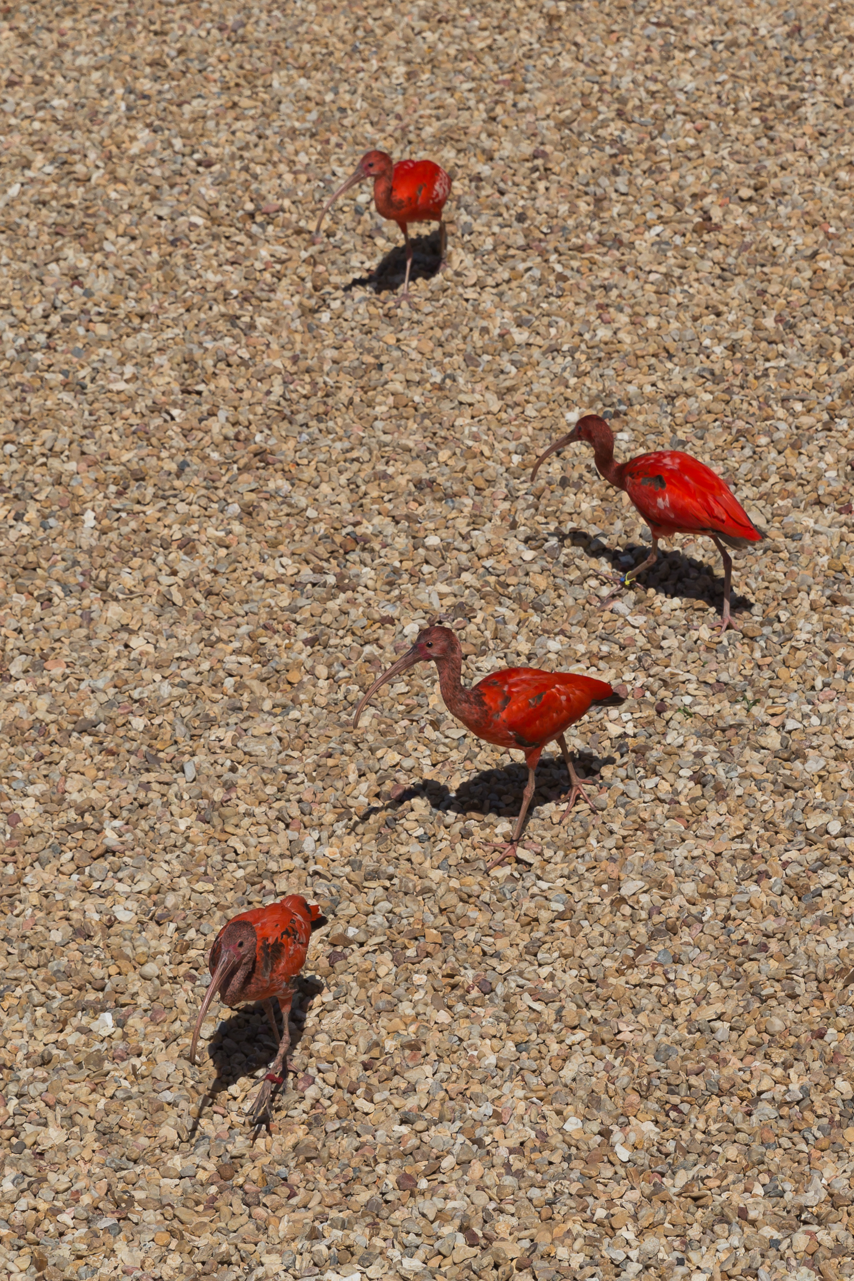 Eudocimus ruber (scarlet ibis) in the spectacle of birds in the ZooParc de Beauval in Saint-Aignan-sur-Cher, France.